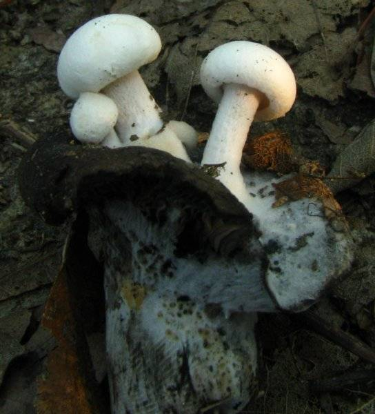 Fruit bodies of the mycoparasitic fungus Asterophora lycoperdoides (Bull.) Ditmar. Specimens photographed in Wildcat Hollow, Wayne National Forest, Ohio, USA.